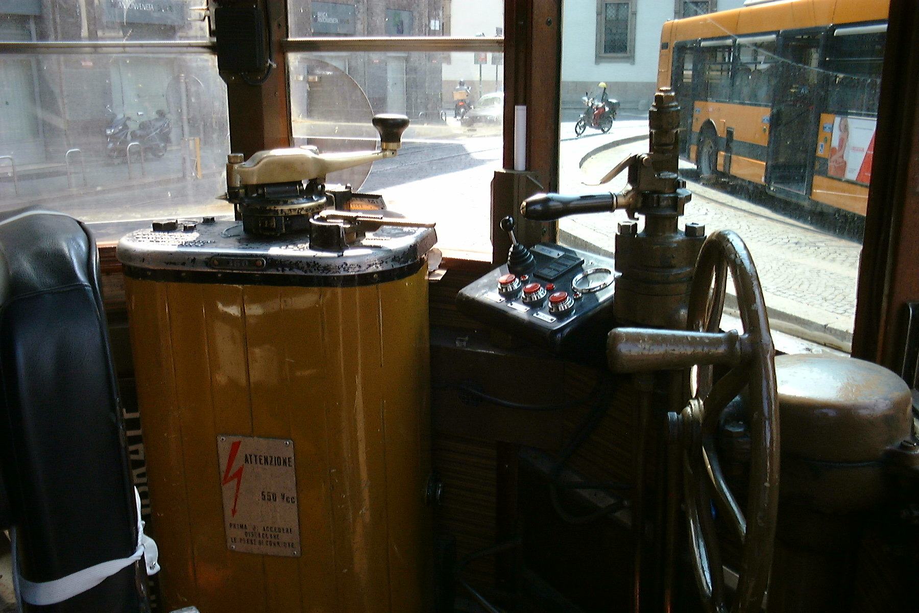 The famous trams of Milan, Italy. Built in 1928 and still going strong!